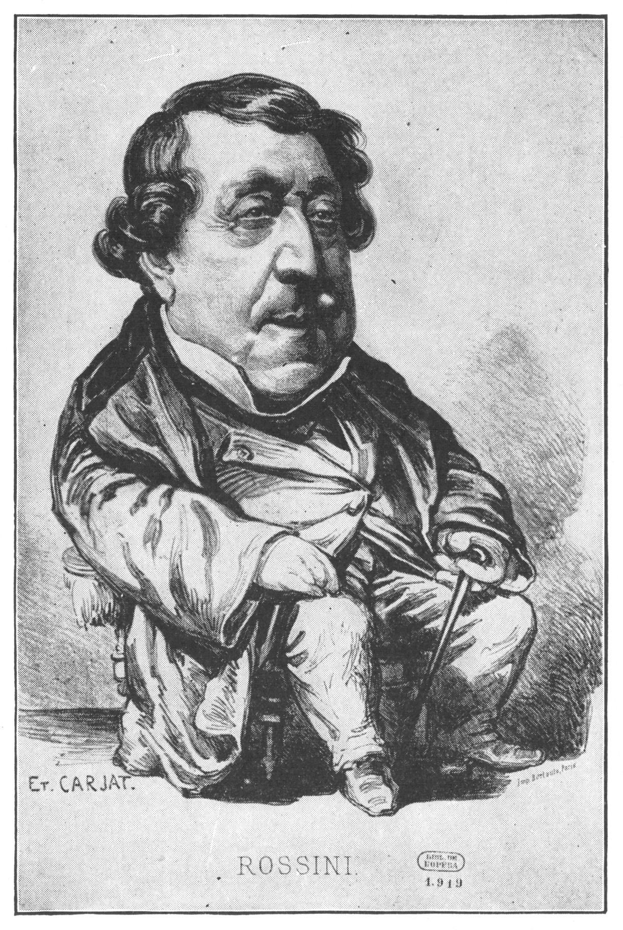 Caricature of Rossini by Carjat reproduced from a print at the Paris Opera.